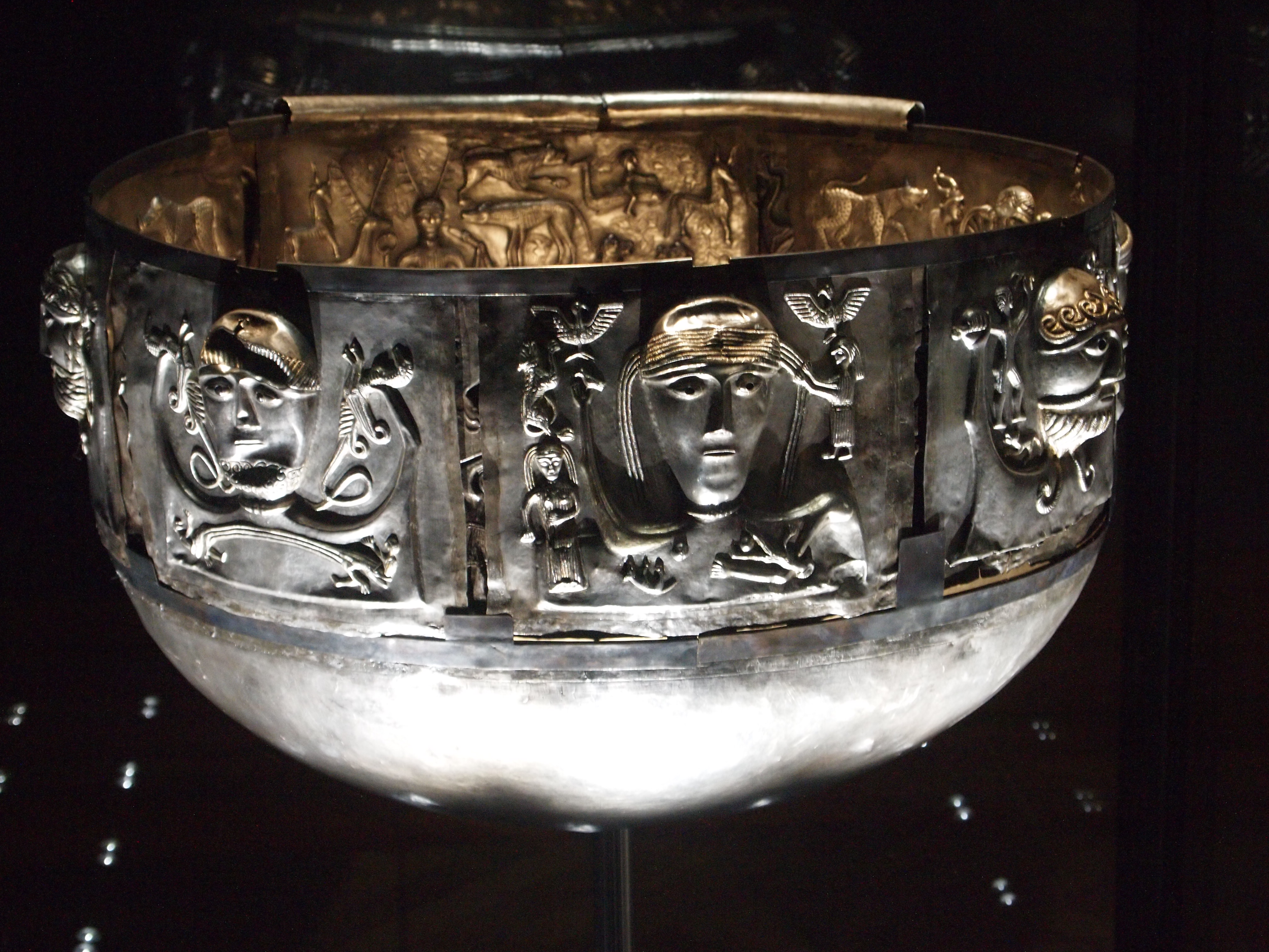 Pictures taken at the National Museet - The National Museum - Copenhagen Denmark during the Wikipedia Loves Nationalmuseet